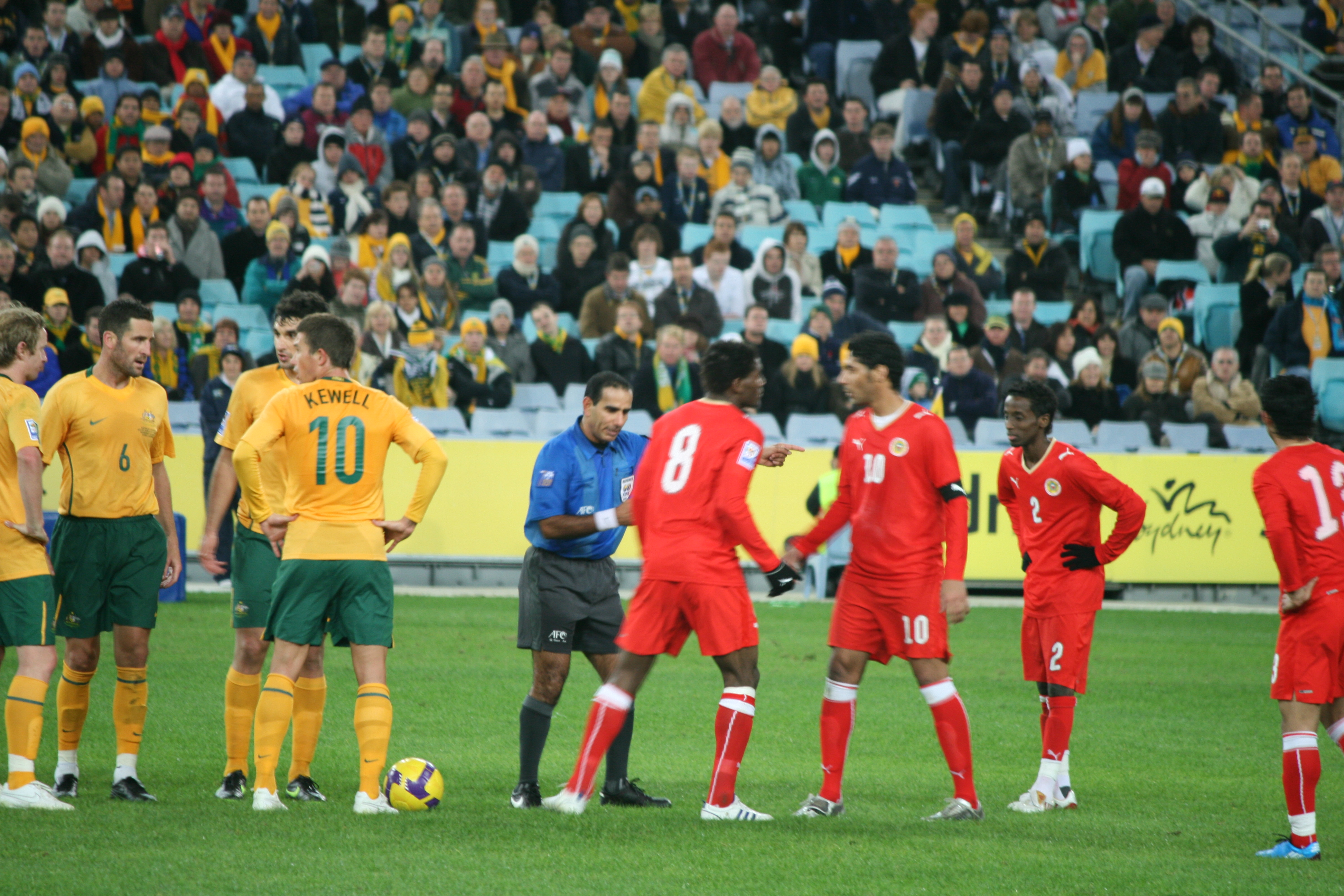 Socoroos vs Bahrain. World Cup Qualifier